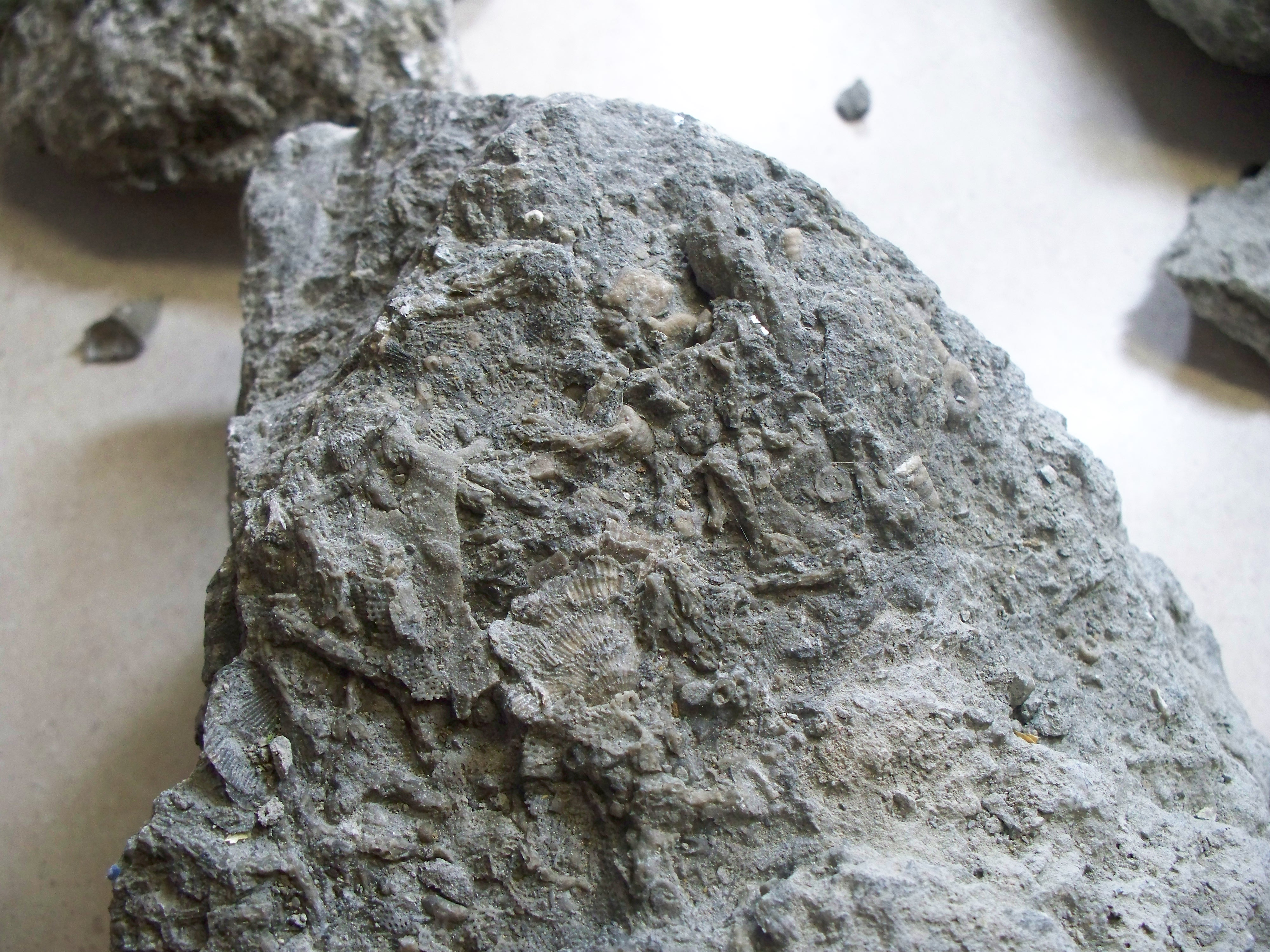 This is a picture of a specimen of hash fossil from my fossil collection